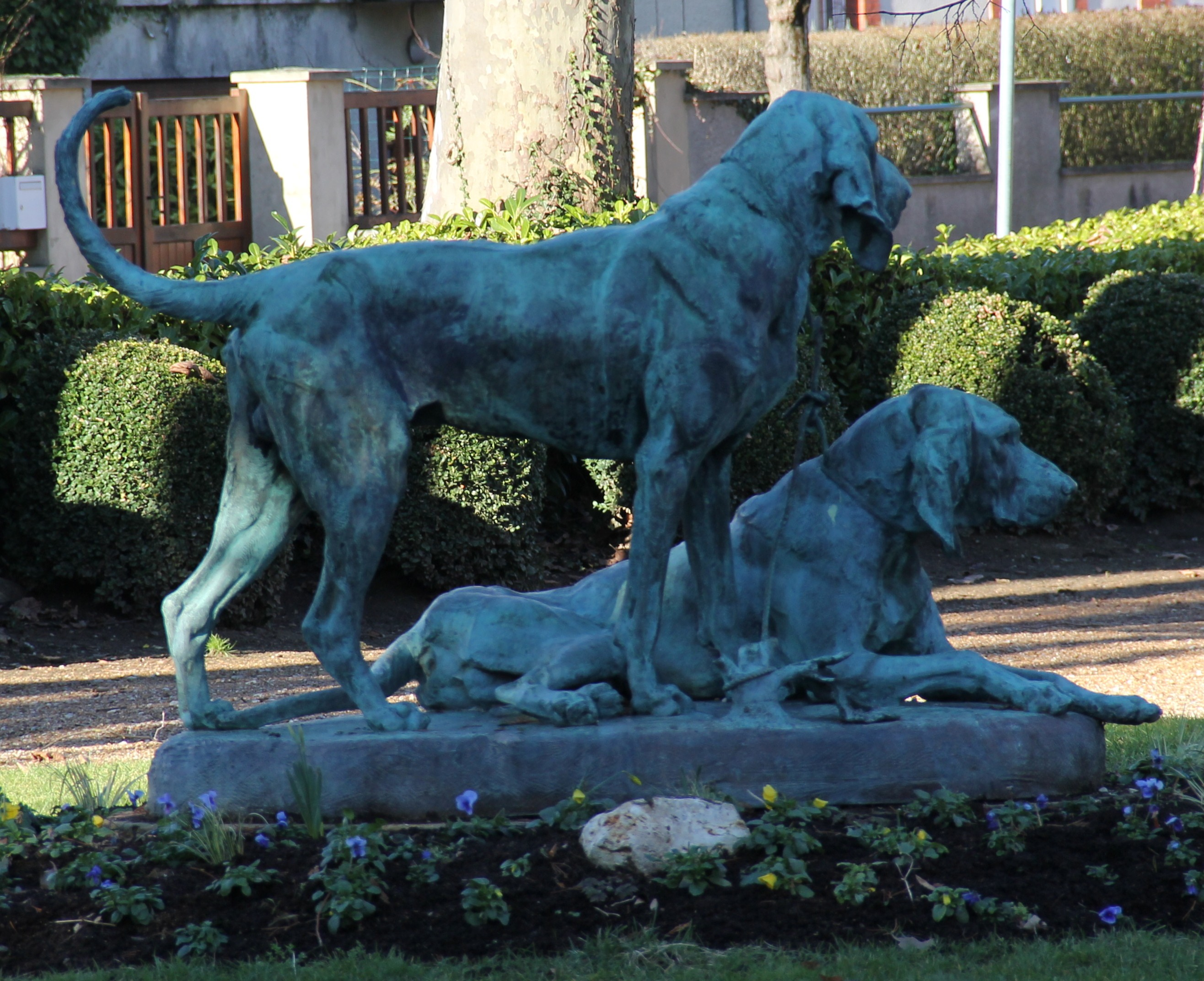 A statue inside the park located Place de la République in Nogent-le-Rotrou, Eure-et-Loir, France.